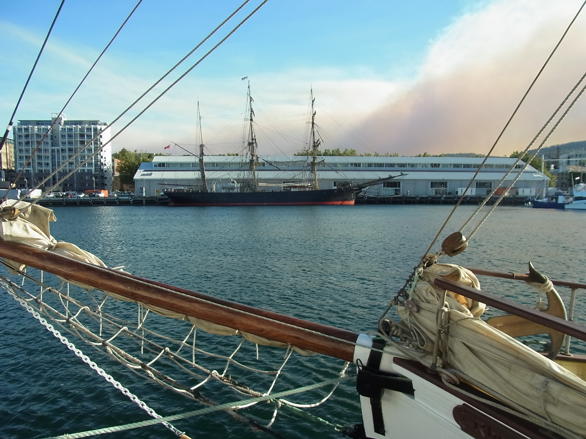 James Craig in Hobart in Feb 2013-smoke from bush fires in background